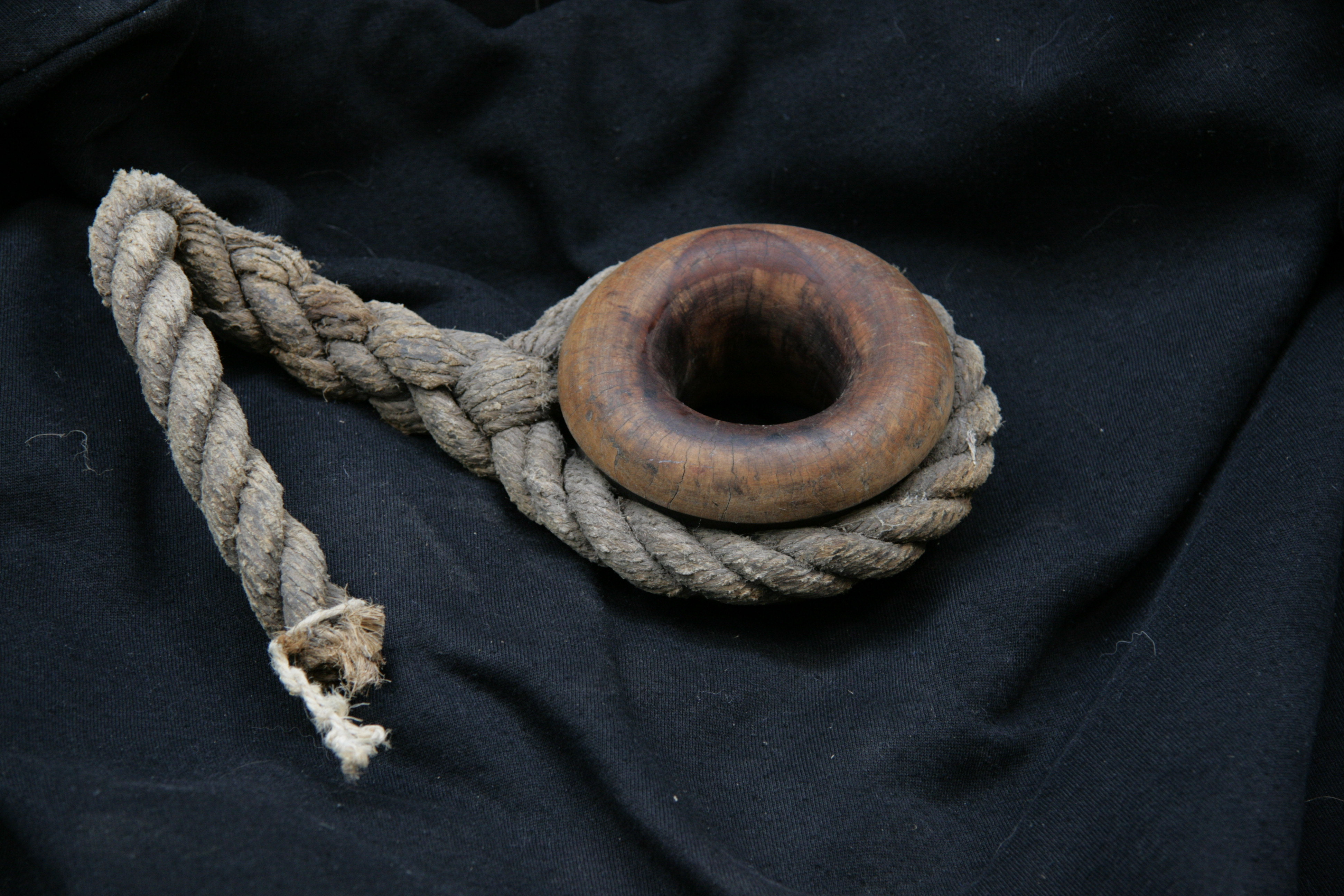 Bulls eye with a piece of rope